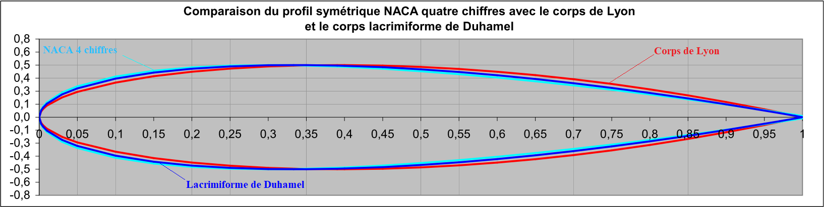 Comparison of the shapes of the 4-digit NACA profiles, the Hilda M. Lyon body and the Duhamel lacrimiform body. The Lyon's body has a maximum thickness a little further back and NACA 4 digits a leading edge a little thicker.